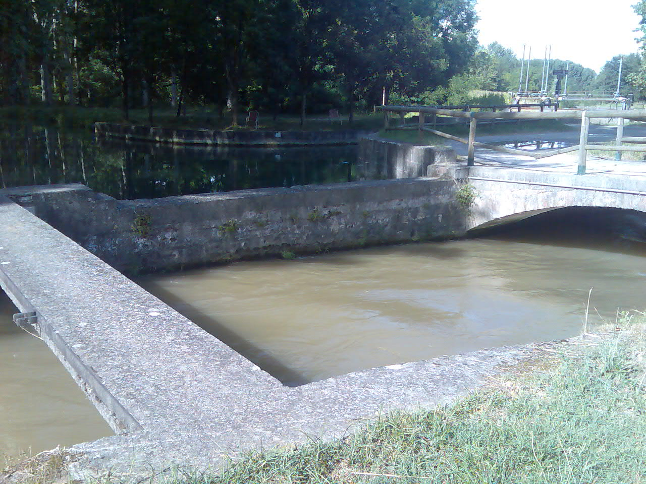 An ancient artefact, based on a kind of syphone locally called tomba (italian word for grave), allows the Naviglio di Cremona to pass over Naviglio Pallavicino and gives the name to the hydrographical node of Tombe Morte, 30 km NW of Cremona, Italy.